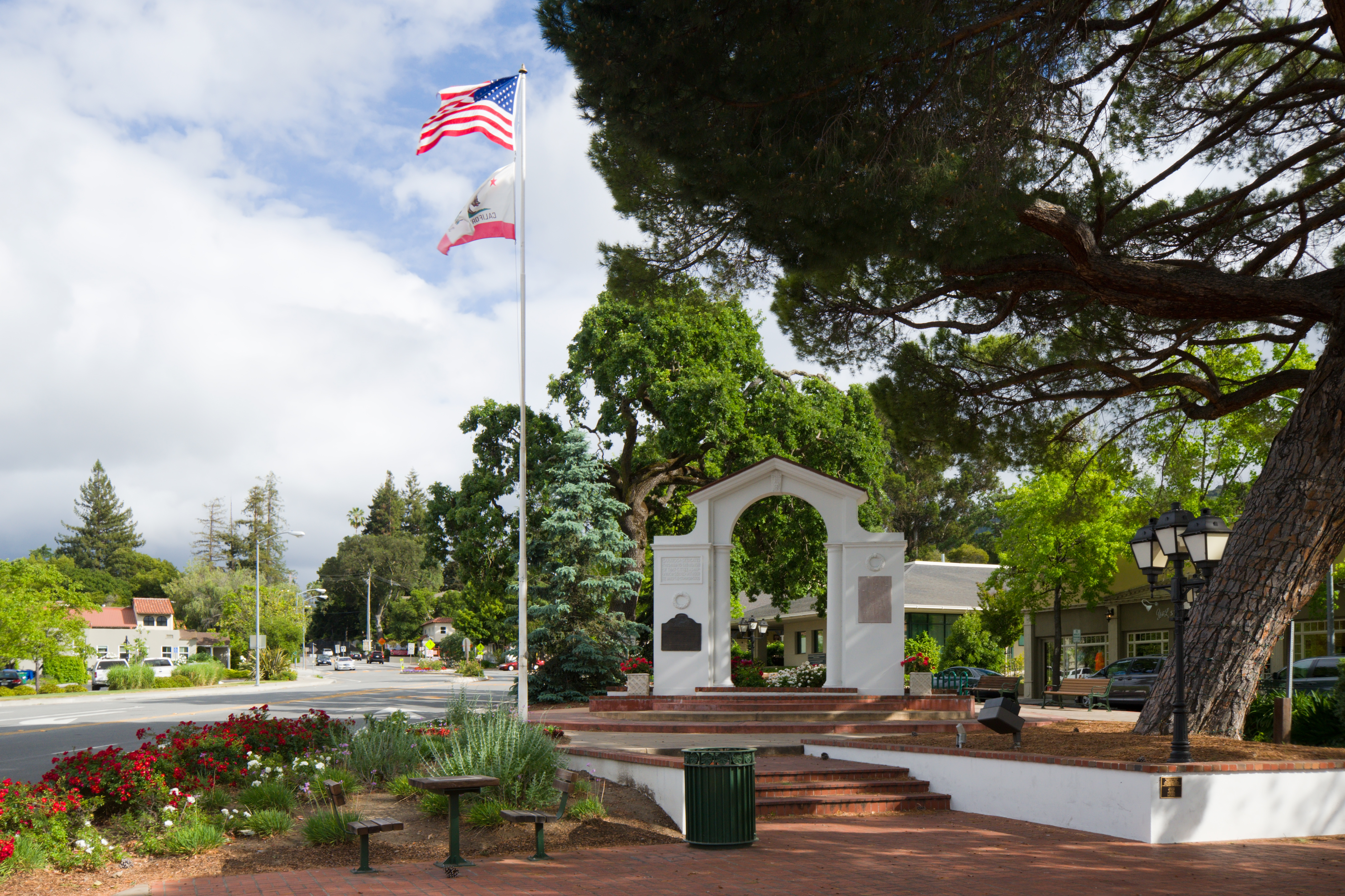 The Memorial Arch in Saratoga, California was built in 1919 in tribute to the Saratoga residents who lost their lives in World War I. On the left side of the arch is the plaque designating Saratoga as California Historical Landmark No. 435.